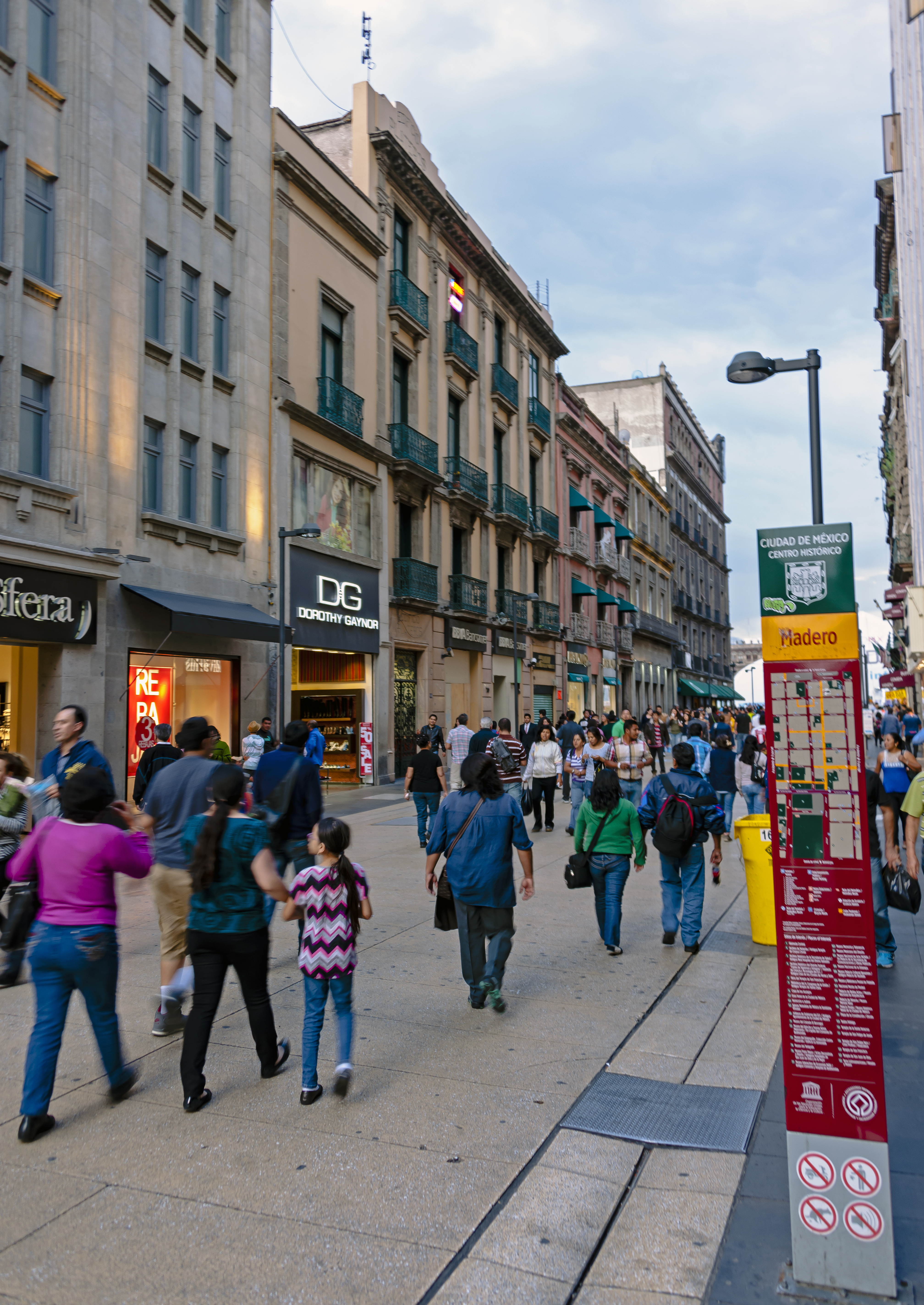 Looking east down Calle Francisco I. Madero from the intersection with Calle de la Palma one block east of the Zocalo in the Historic center of Mexico City, with an interpretive post and map.